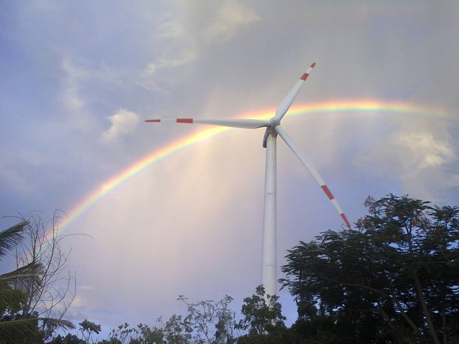 Powering A Greener Tomorrow